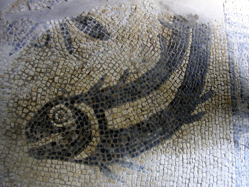 Detail of the mosaic floor in the bath house at Great Witcombe Roman Villa.